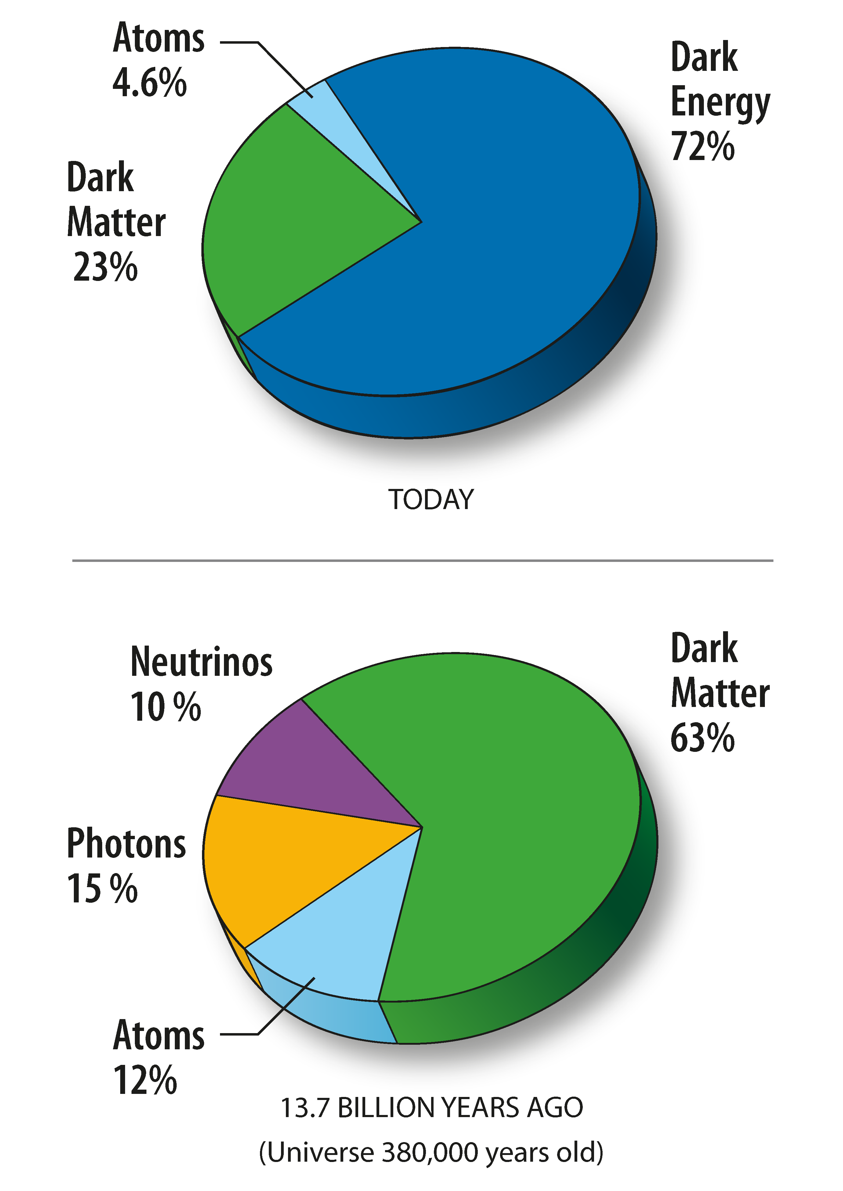 "WMAP data reveals that its contents include 4.6% atoms, the building blocks of stars and planets. Dark matter comprises 23% of the universe. This matter, different from atoms, does not emit or absorb light. It has only been detected indirectly by its gravity. 72% of the universe, is composed of "dark energy", that acts as a sort of an anti-gravity. This energy, distinct from dark matter, is responsible for the present-day acceleration of the universal expansion. WMAP data is accurate to two digits, so the total of these numbers is not 100%. This reflects the current limits of WMAP's ability to define Dark Matter and Dark Energy."